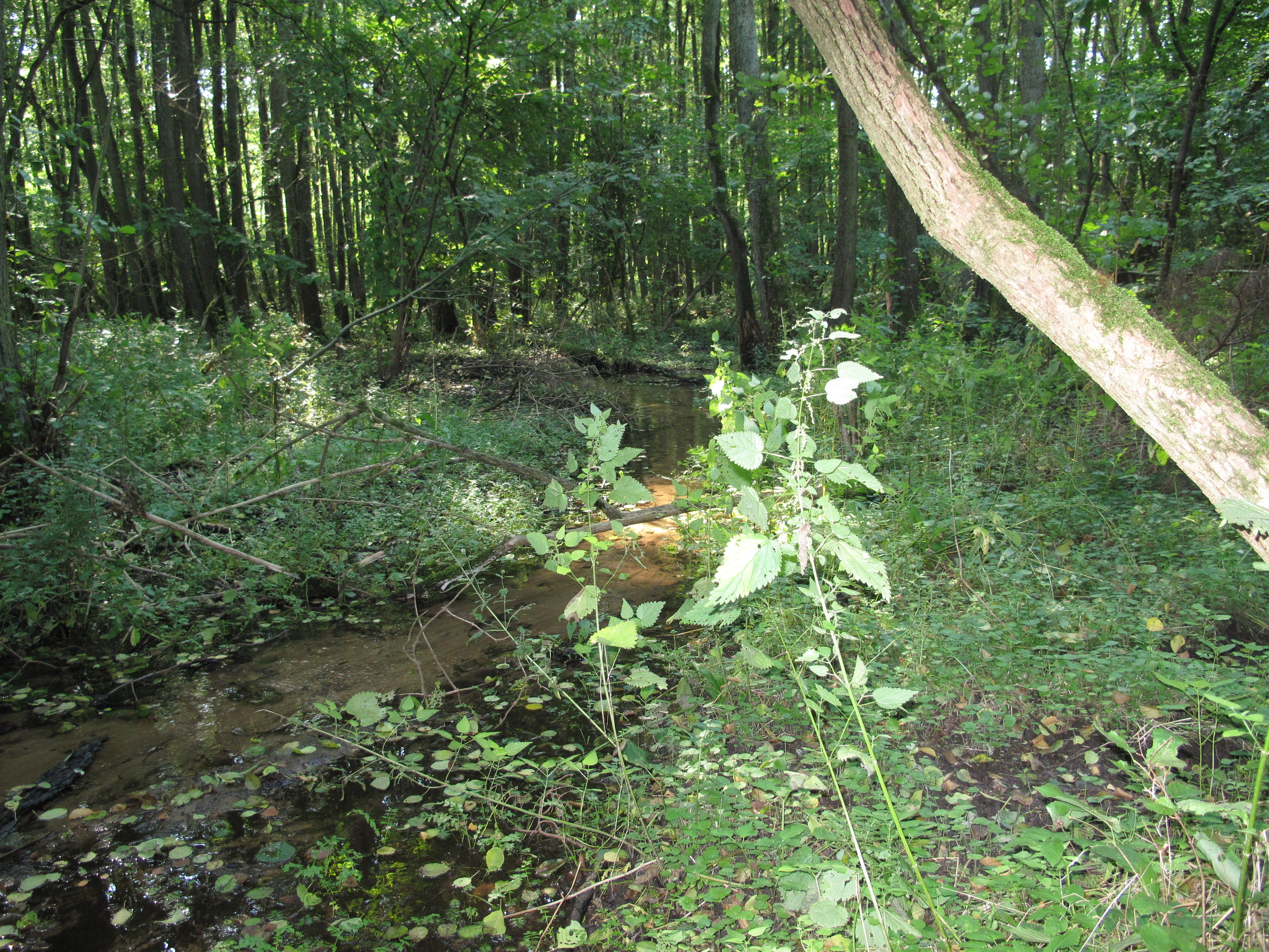 Blabbergraben at the former Blabbermühle (water mill) in the village Görsdorf. The Blabbergraben is a stream in the District Oder-Spree, Brandenburg, Germany. Coming from the „ Herzberger See“ the stream connects five small, long lakes in the municipalities Rietz-Neuendorf and Tauche and drains them into the river Spree. Including the lakes the flow length is 13,7 kilometers.